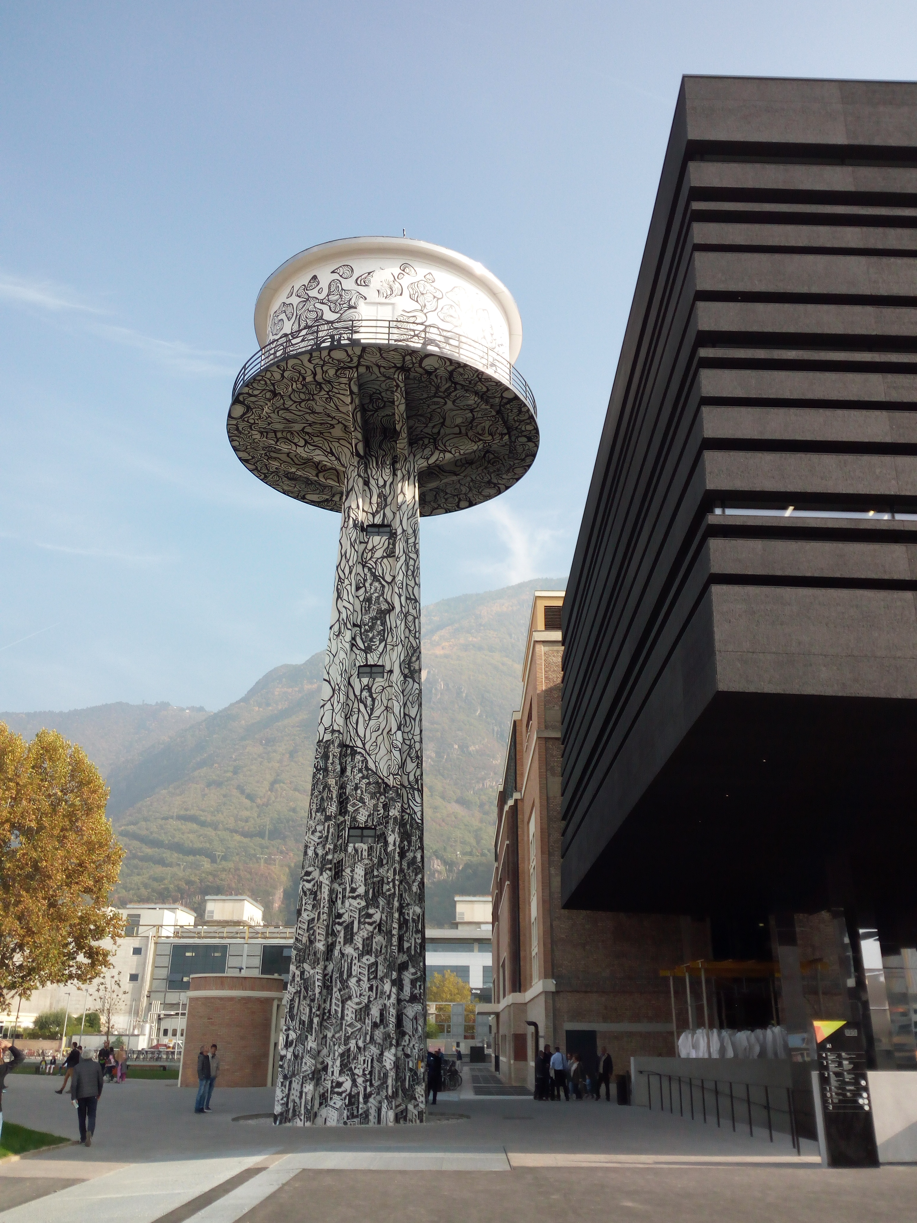 Techpark Bozen Bolzano-South Tyrol, buildings